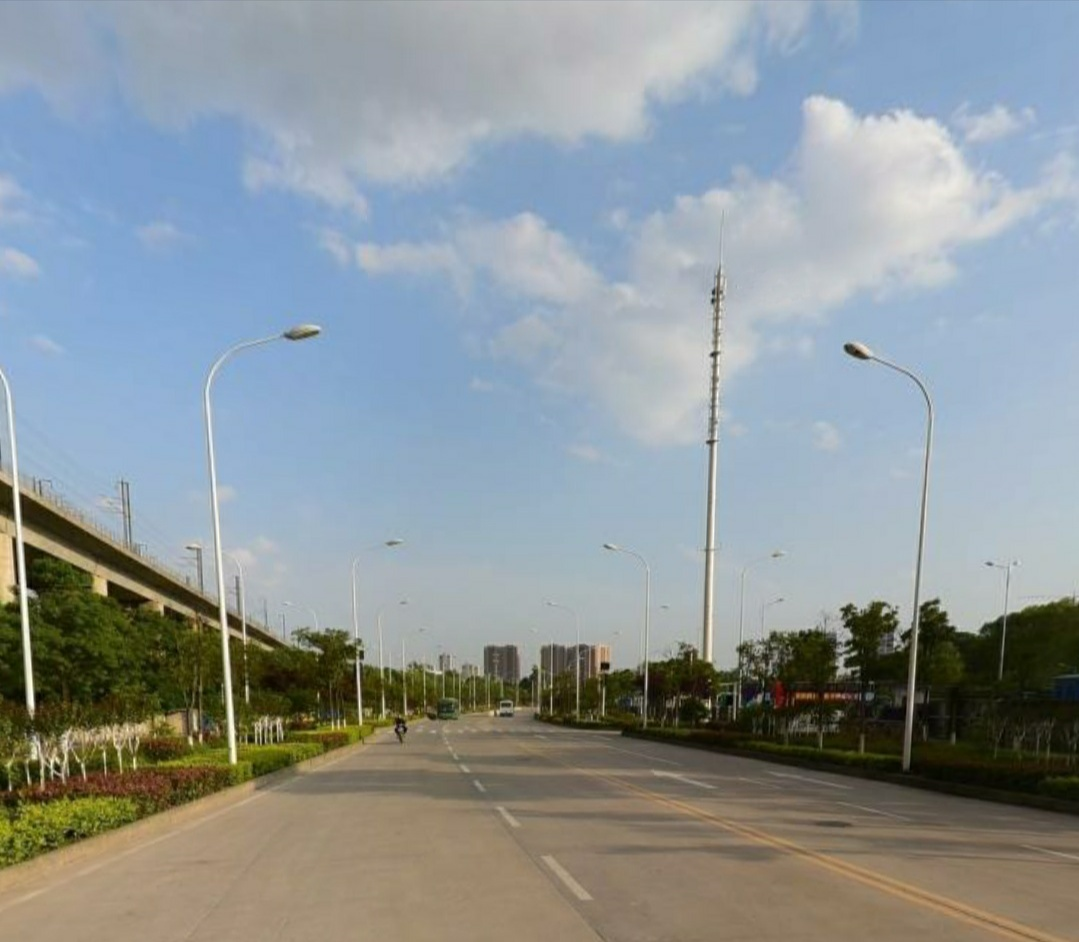 Jianshe Road(10th),Honggangcheng Subdistrict.